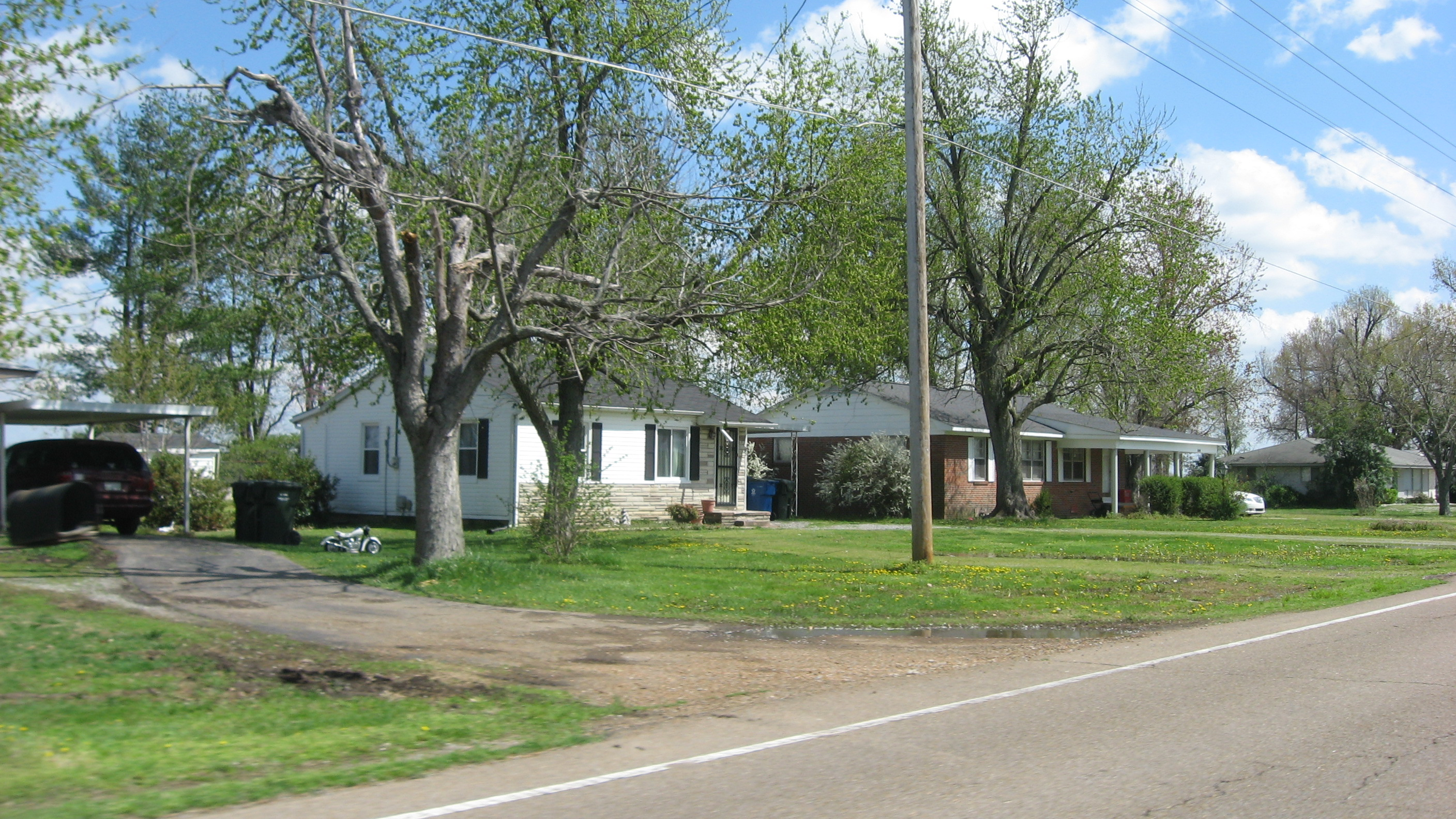 Houses on the eastern side of Thompson Street (State Route 5) south of the Jones Street intersection in Woodland Mills, Tennessee, United States.